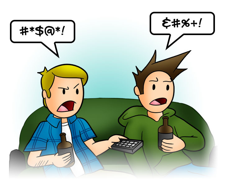 Cartoon characters swearing with grawlixes.